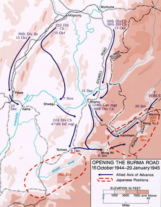 Opening the Burma Road 15 October 1944 - 20 January 1945